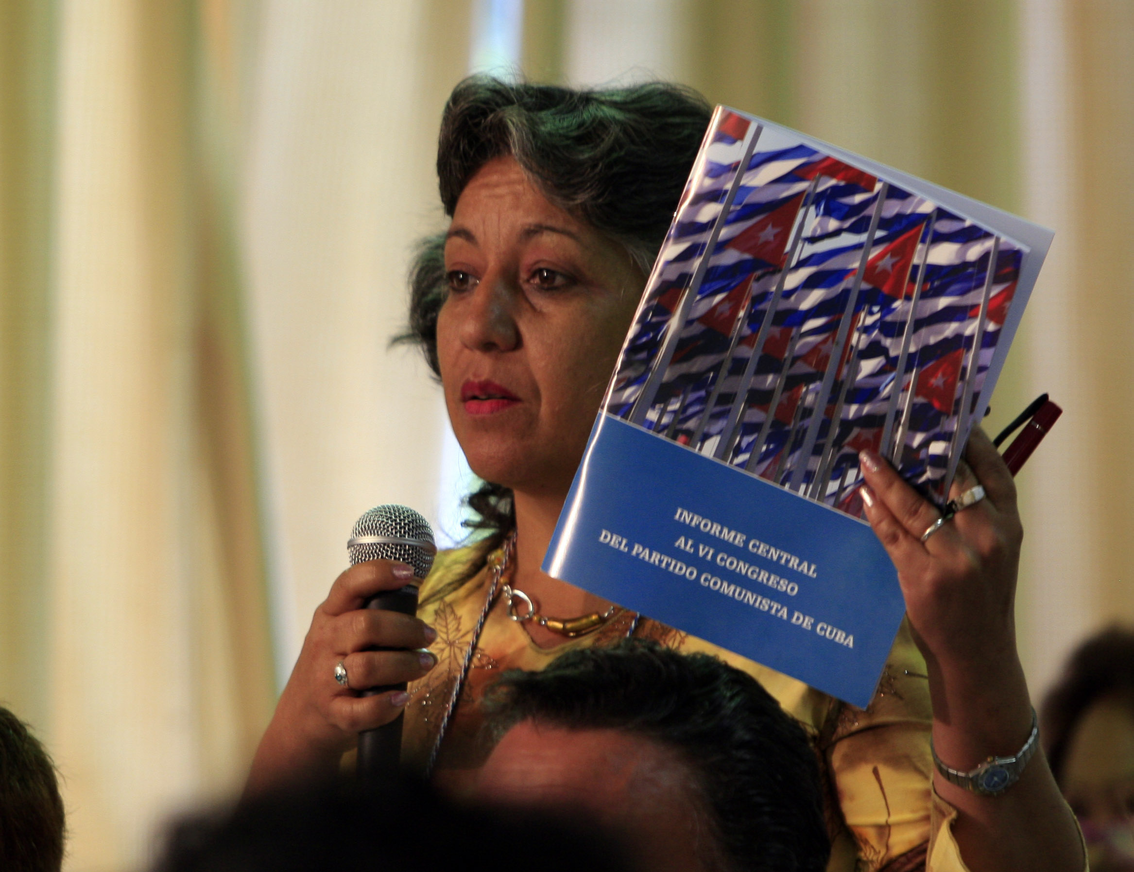 Discussion on the VI. Congress of PCC (Cuba).